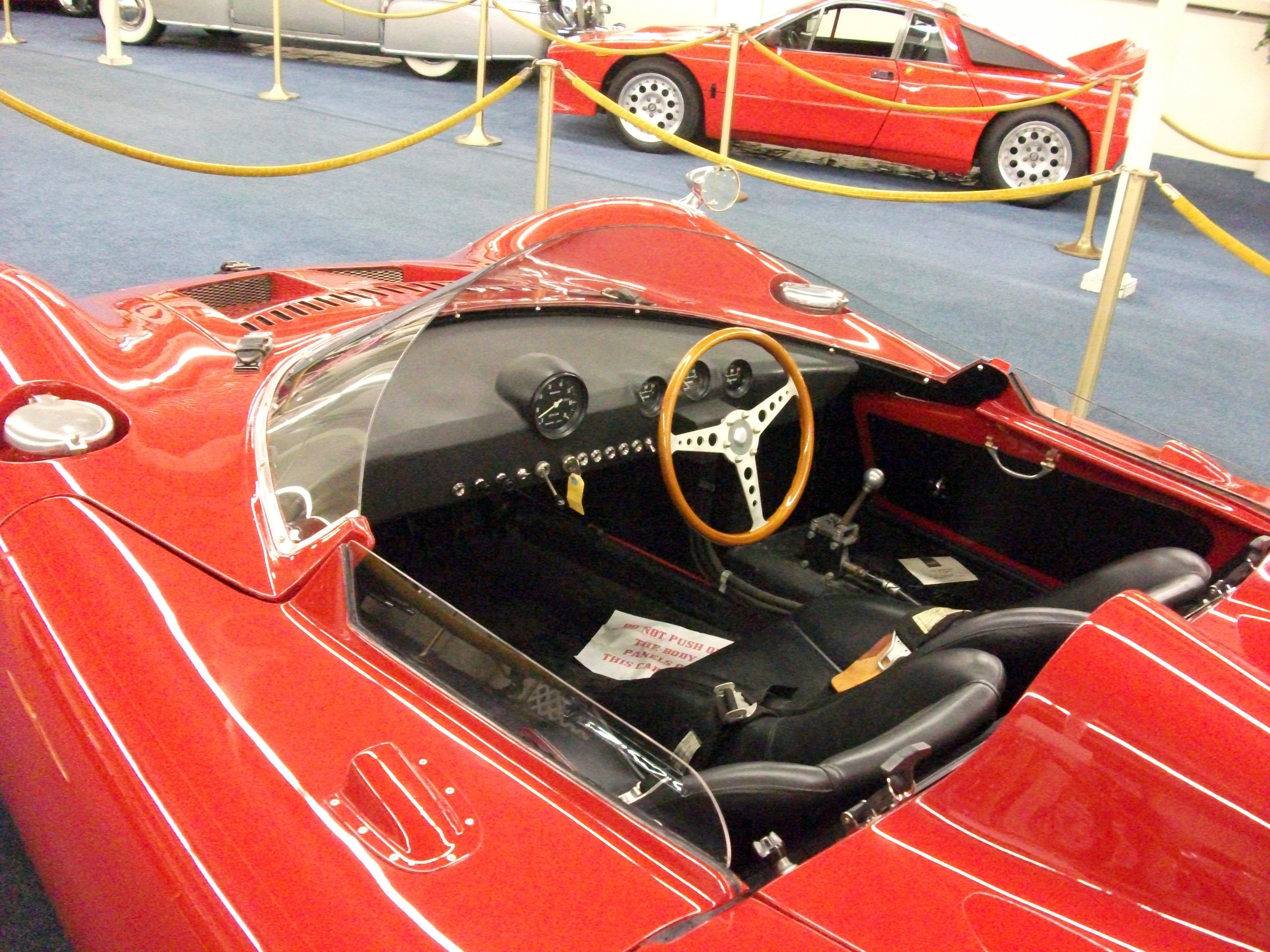 This 1966 Bizzarini P538 Spyder was the prototype for the small number of P538s produced. It has a different chassis than the later cars. They are mid engined with either a V8 or V12.